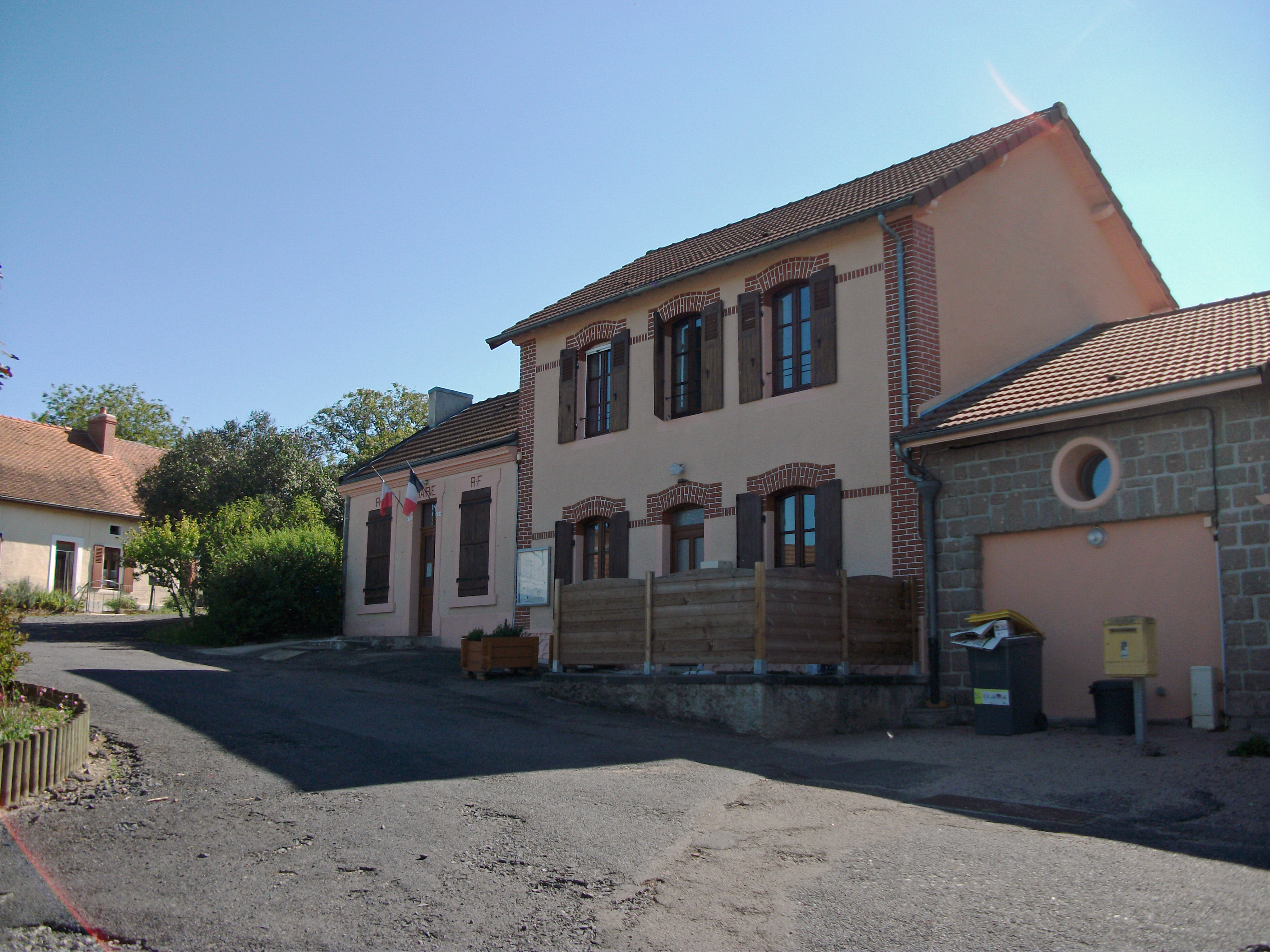 Town hall of Bost [8892]